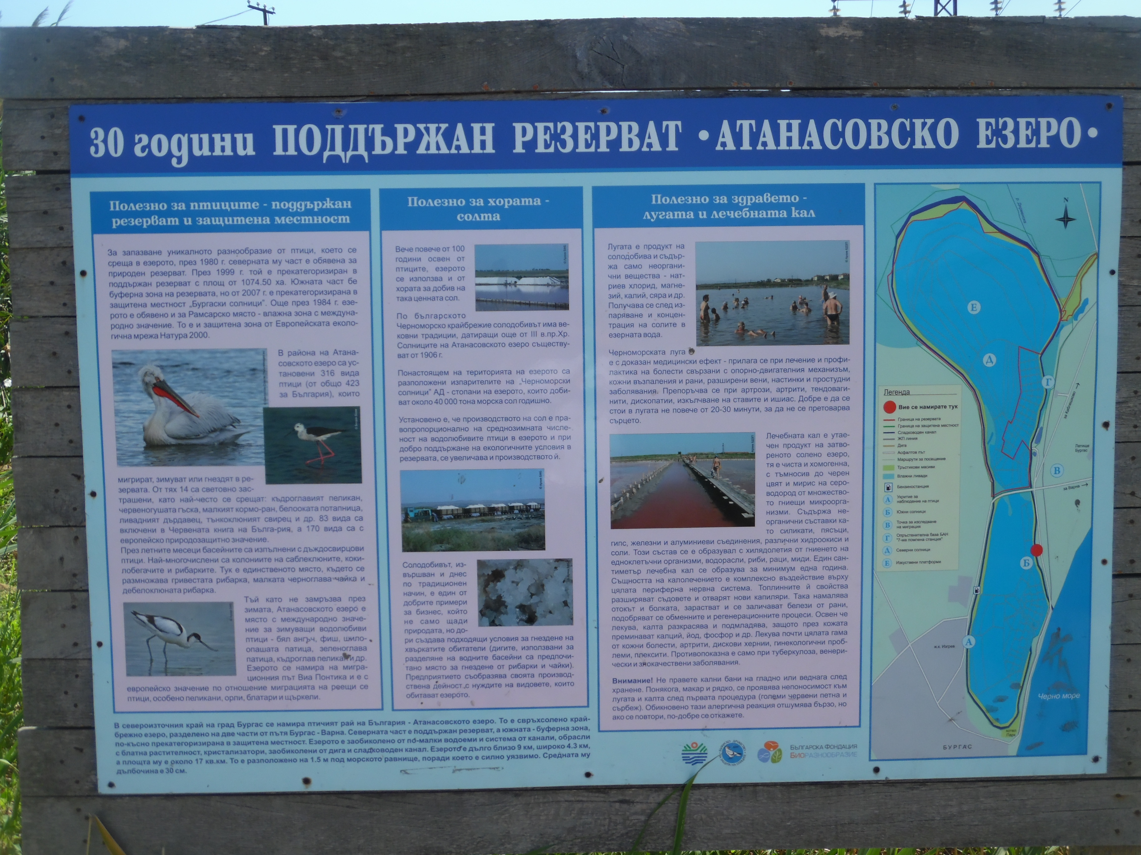 Atanasovsko Lake